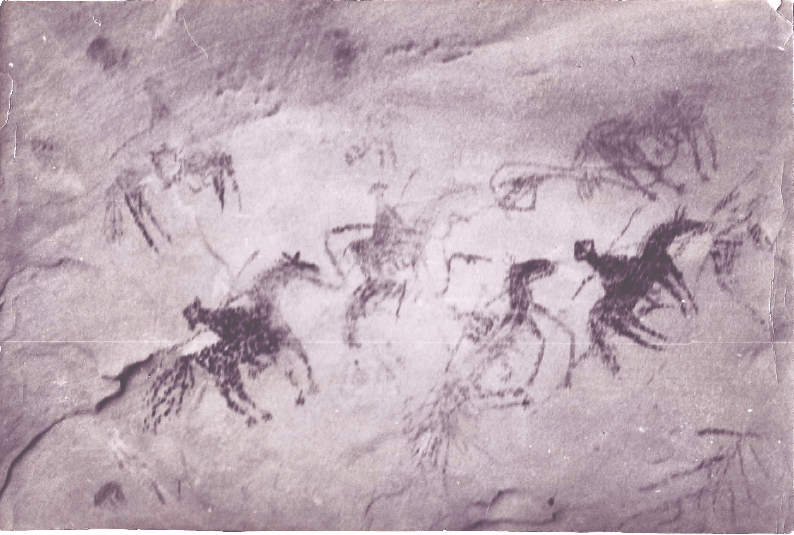 Drawing found on ceiling of cave like feature on a canyon floor in New Mexico, 20 miles NE of Gallup NM.